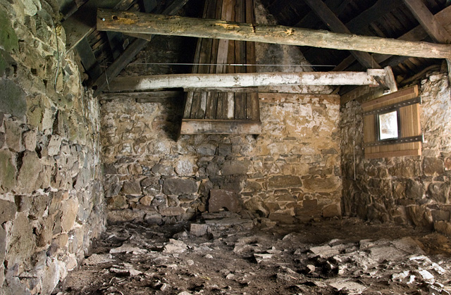 Interior of the cottage at Auchtavan - 1. See 1440008 On the far east wall of the cottage can be seen the "hingin lum" or "hanging chimney". It is constructed from wooden boards at the front and sides. While constructed of wood, it was wide and there was no quick updraft to fan any sparks which might occasionally alight on the sides. Peat was the fuel for the fire and it would not have produced much in the way of sparks as wood would have done. Hingin lums were once common but not many are left. The lum, along with the rest of the building, is important surviving evidence of the early traditional Scottish small house and a way of life now long passed.